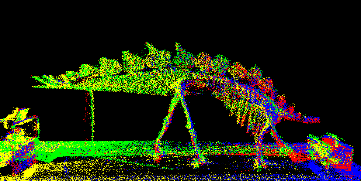 3D pointcloud of a stegosaurus